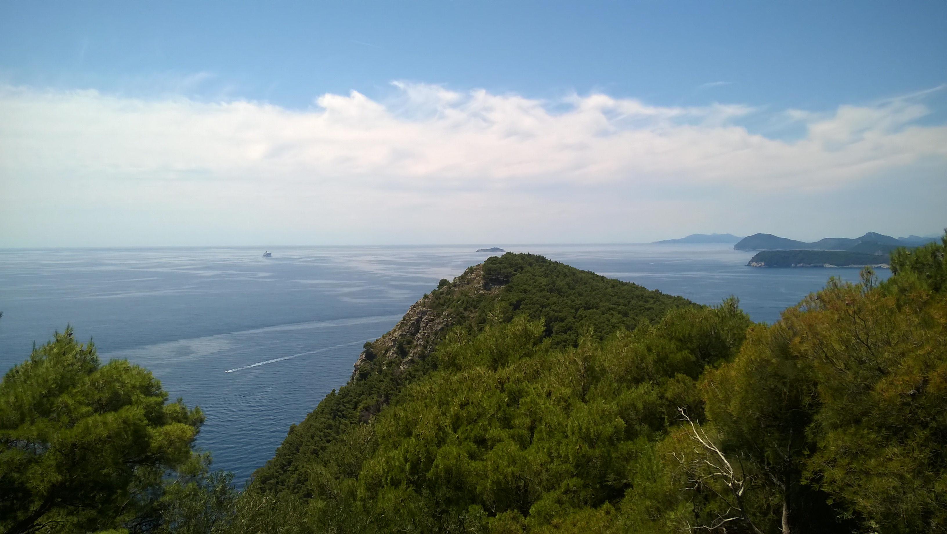 Nature Reservation Croatia Dubrovnik